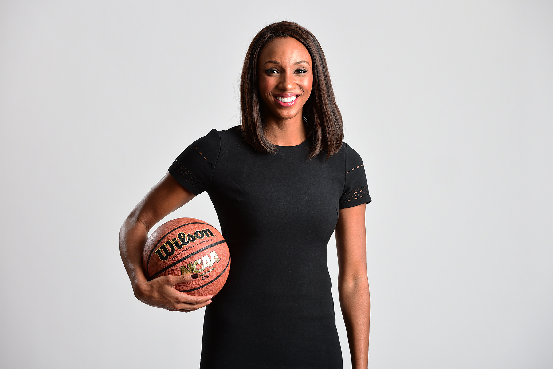 Maria Taylor